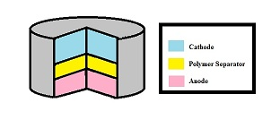 Cross View of a Battery with a Polymer Separator